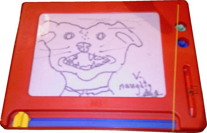 A Magna Doodle drawing toy (Milton Bradley Company, ca. 1995) with a drawing by me. Shown complete apart from the yellow stylus.